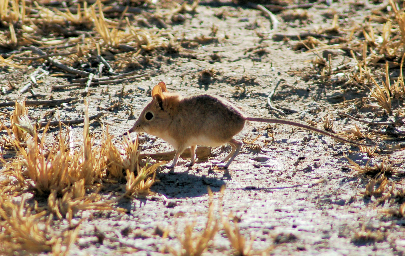 Kgalagadi National Park, South Africa